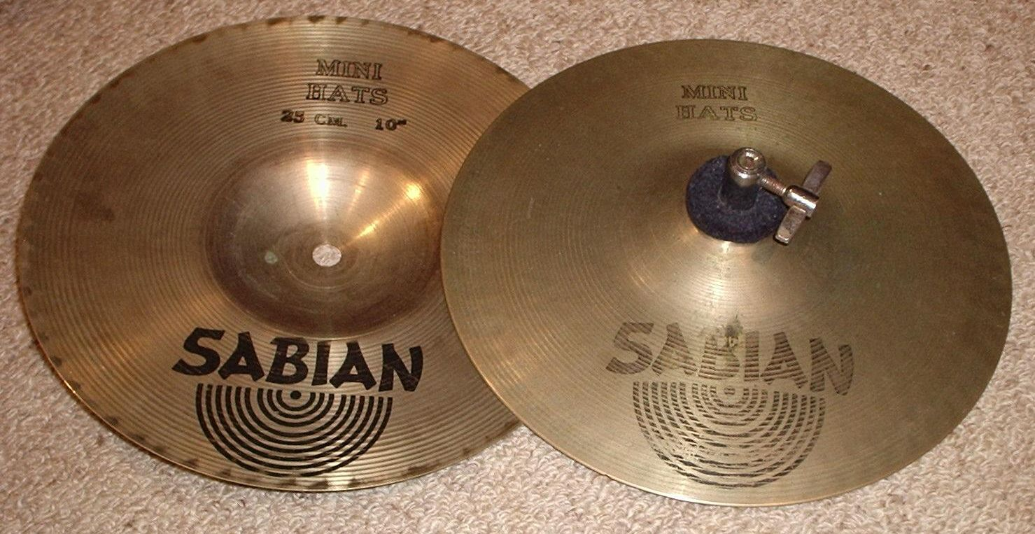 Sabian 10" mini hats